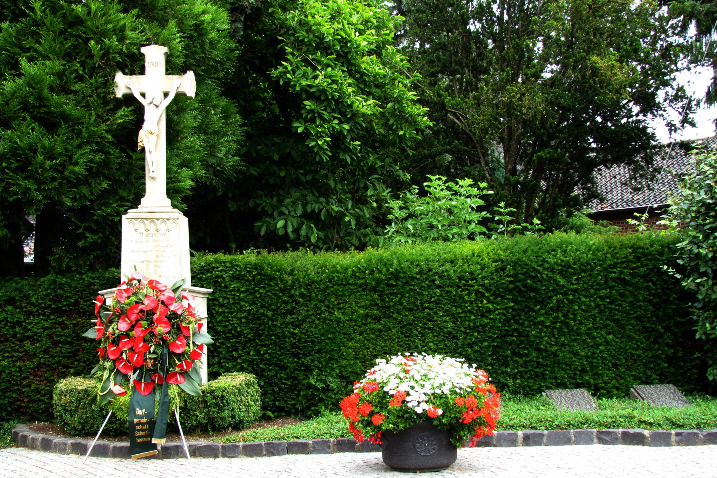 This is a photograph of an architectural monument.It is on the list of cultural monuments of Korschenbroich